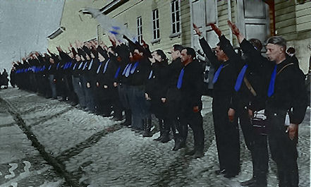 Supporters of the Patriotic People's Movement in 1933; Image was manipulated by a Commons user and does not show the original historical occurence. (It was a black and white image and the mentioned user added the color you see. Blue is a color in the Finnish flag and used by right wing parties here. See discussion.)